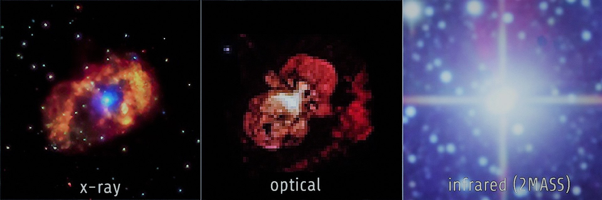 X-ray, Optical & Infrared Images of Eta Carinae This multi-panel image shows Eta Carinae in the same field of view using three different telescopes. From left to right, the images are from the Chandra X-ray Observatory, the Hubble Space Telescope in optical light, with the ground-based 2MASS survey in infrared. The X-ray image reveals an outer horseshoe-shaped ring, a hot inner core, and a hot central source. These structures glow in X-rays because they have been heated multi-million degrees by shock waves. The optical image shows two giant bubbles expanding away from the center of the system at over a million miles per hour. The infrared data reveal that Eta Carinae is one of the most luminous systems in the Milky Way. Eta Carinae is shrouded in a rapidly expanding cloud of dust that absorbs radiation from the central star and re-radiates in in the infrared.